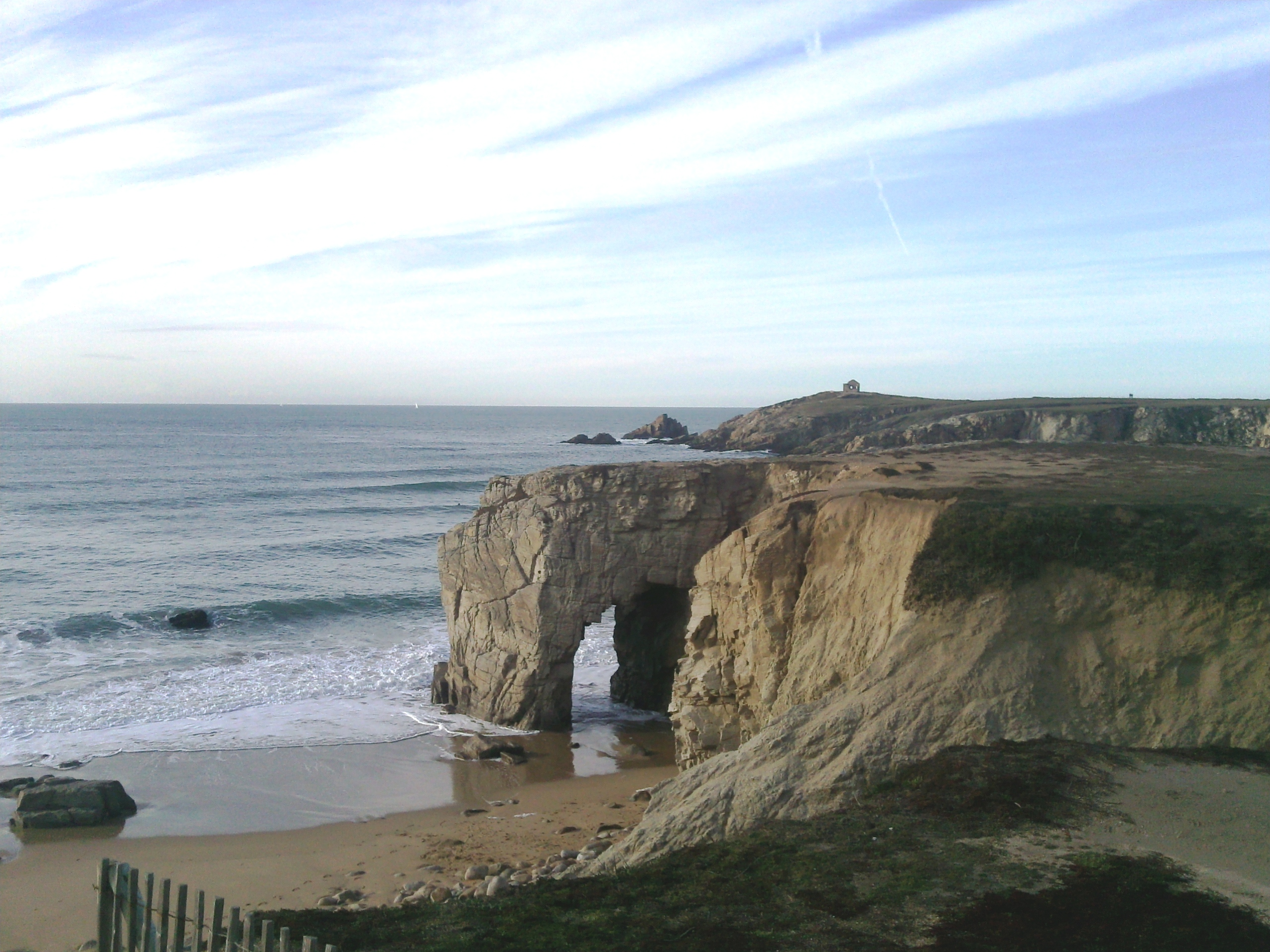 Port Blanc Arch, Saint-Pierre-Quiberon, Morbihan.